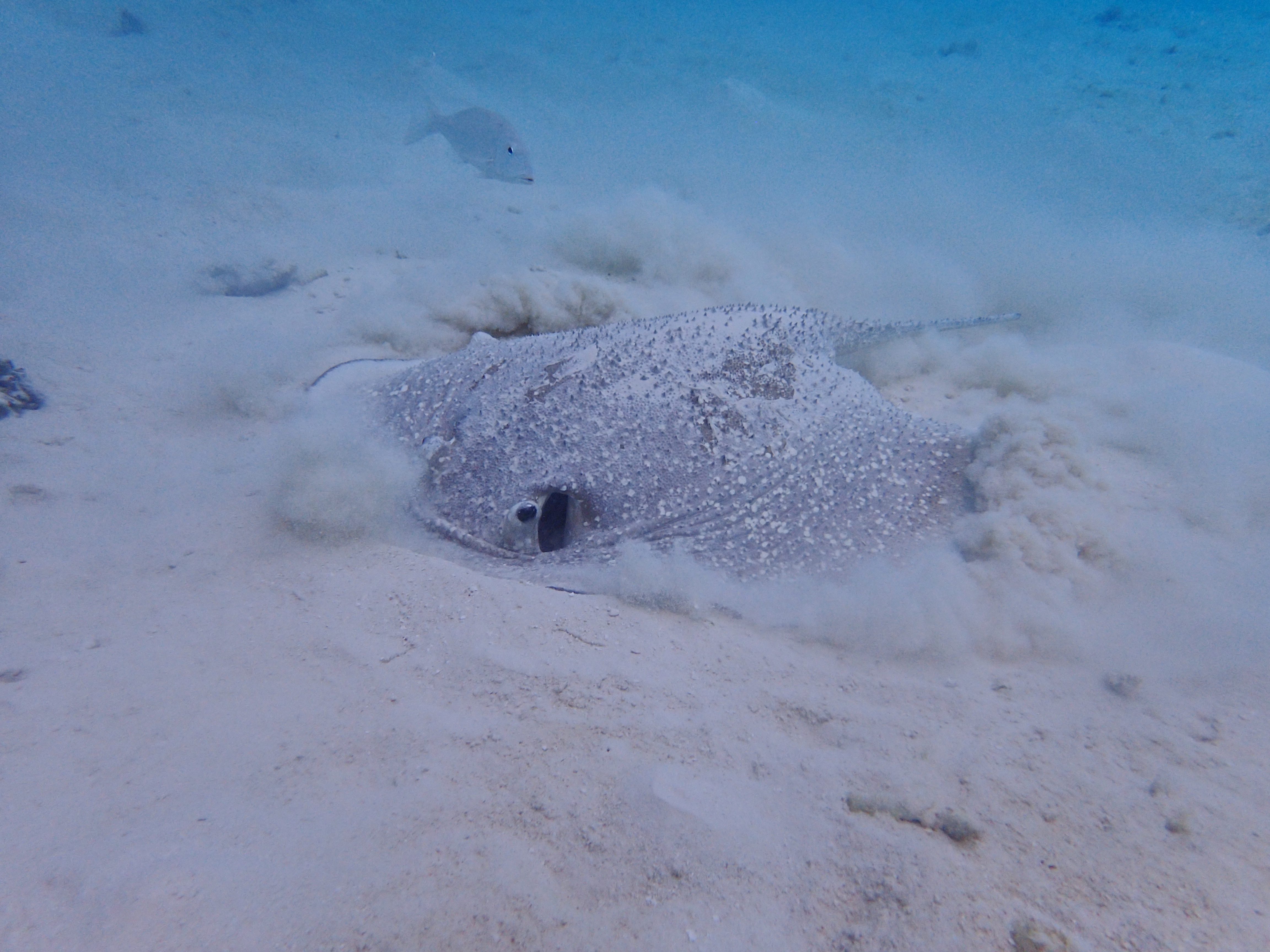 Porcupine Ray - Vilamendhoo Island Lagoon - Maldives